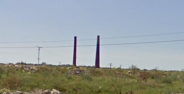 arad